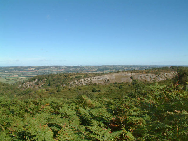 Burrington Combe. The cliffs of Burrington Combe from the lower slopes of Black Down